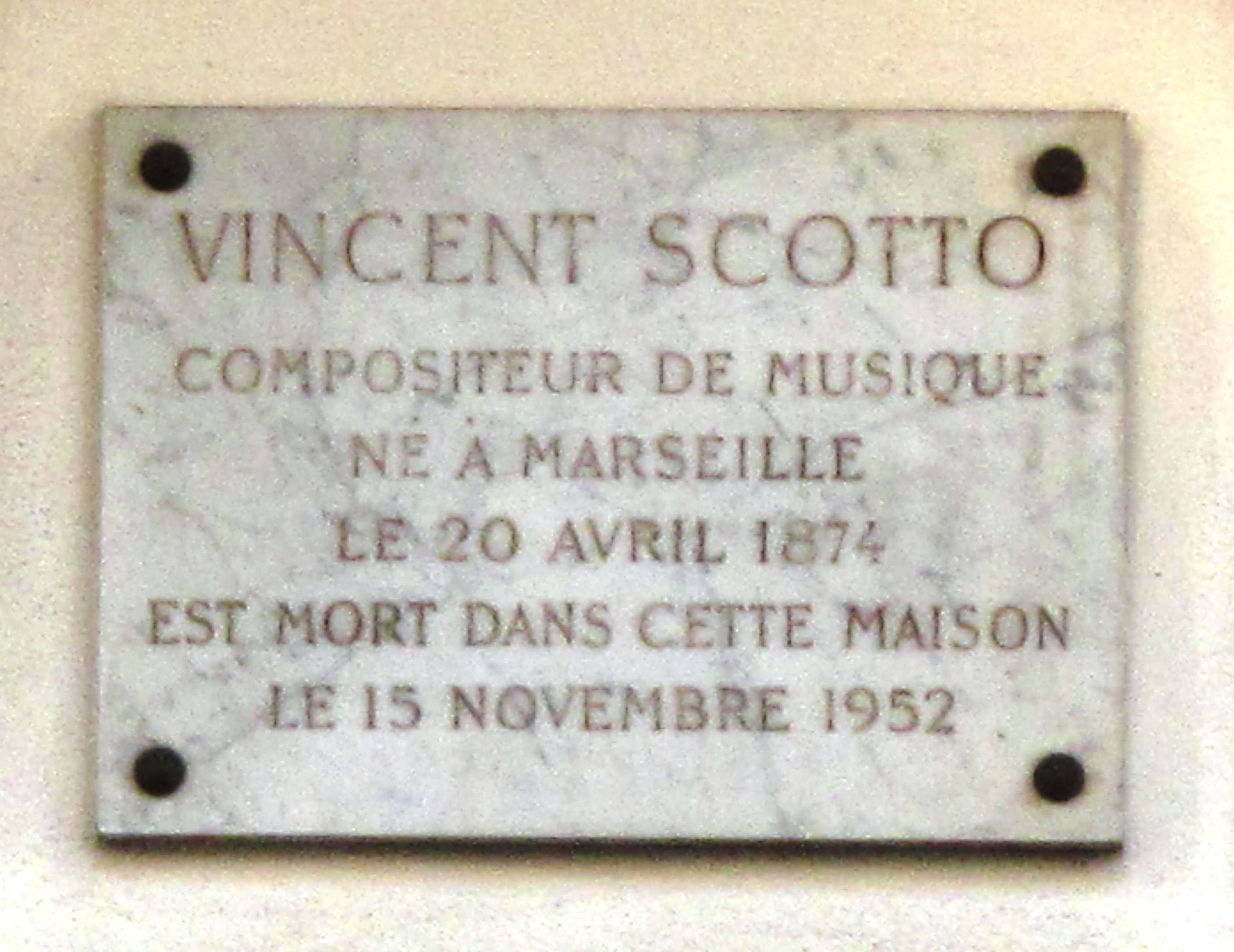 Plaque on the building where was dead the French composer Vincent Scotto : 9-11 rue du faubourg Saint-Martin, Paris 10th arrond.